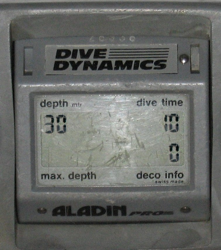 Display of Aladin Pro personal dive computer